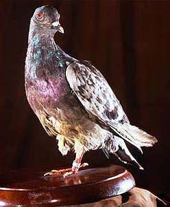 War pigeon Cher Ami